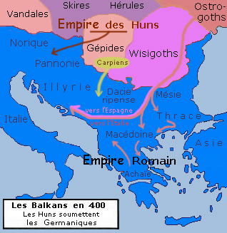 Historic map of Balkan peninsula, year 400